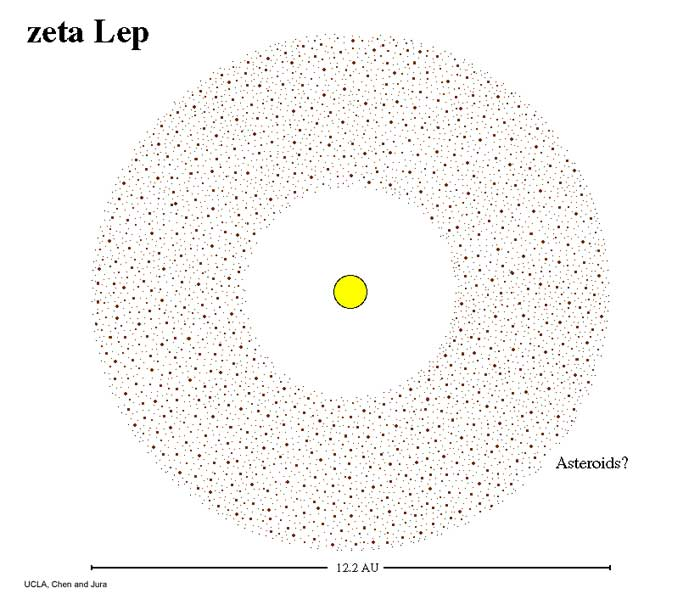 Zeta Leopris asteroid belt